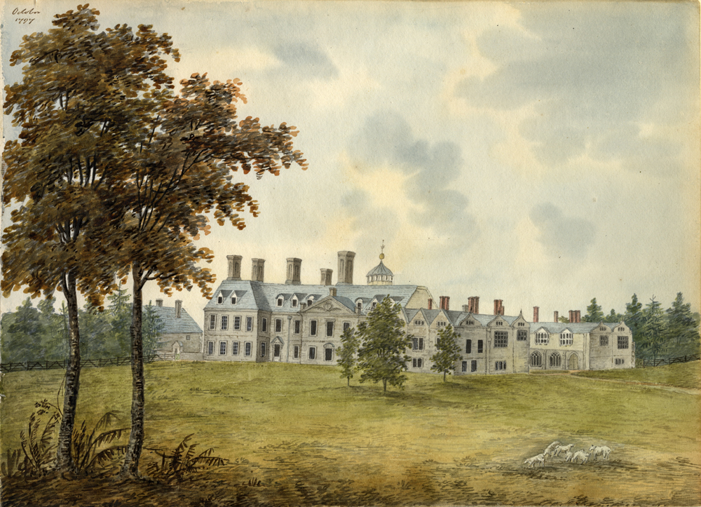 Watercolour painting of Coombe Abbey